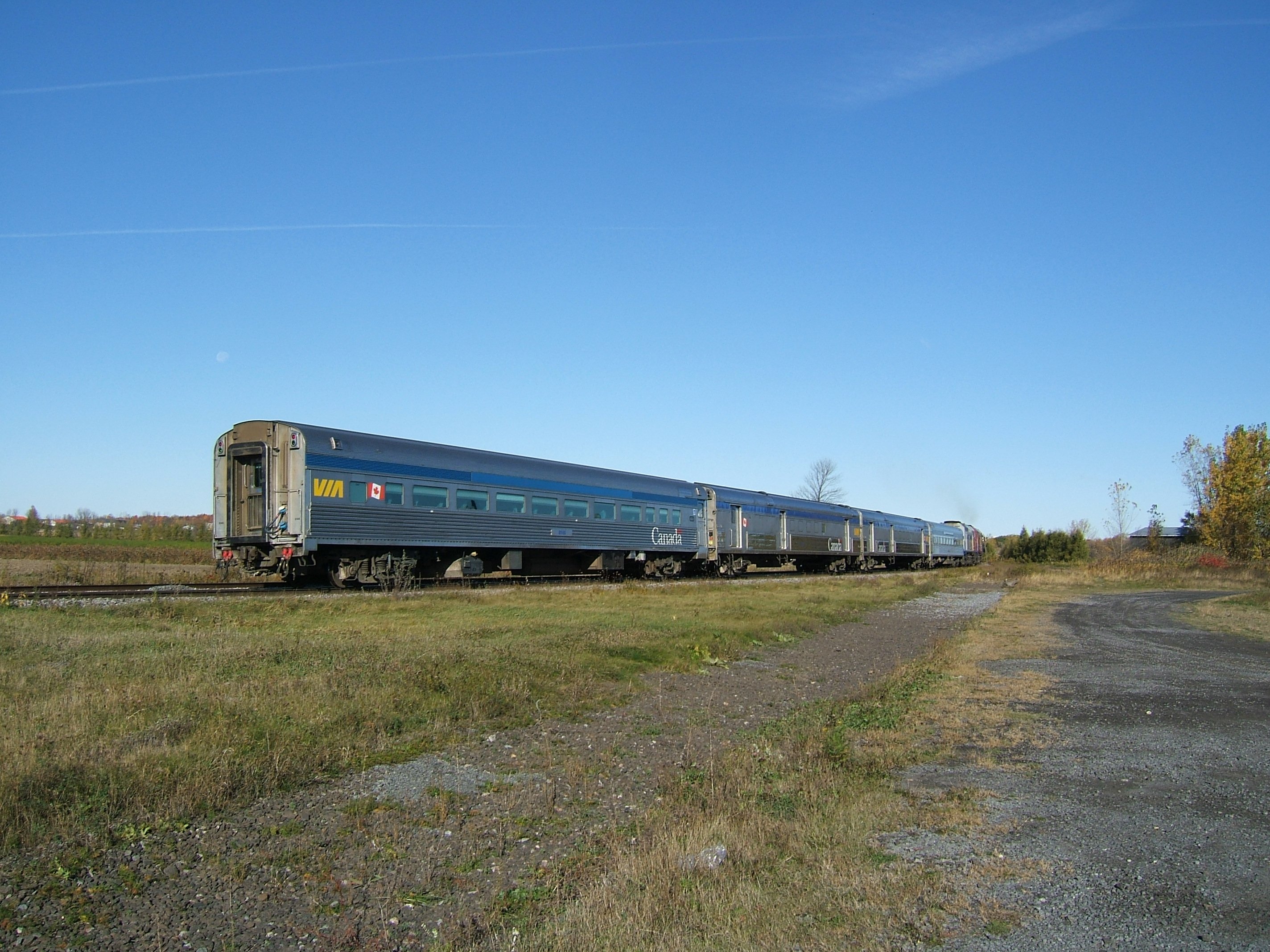 L'Assomption, Québec, station with Abitibi/Saguenay train departing